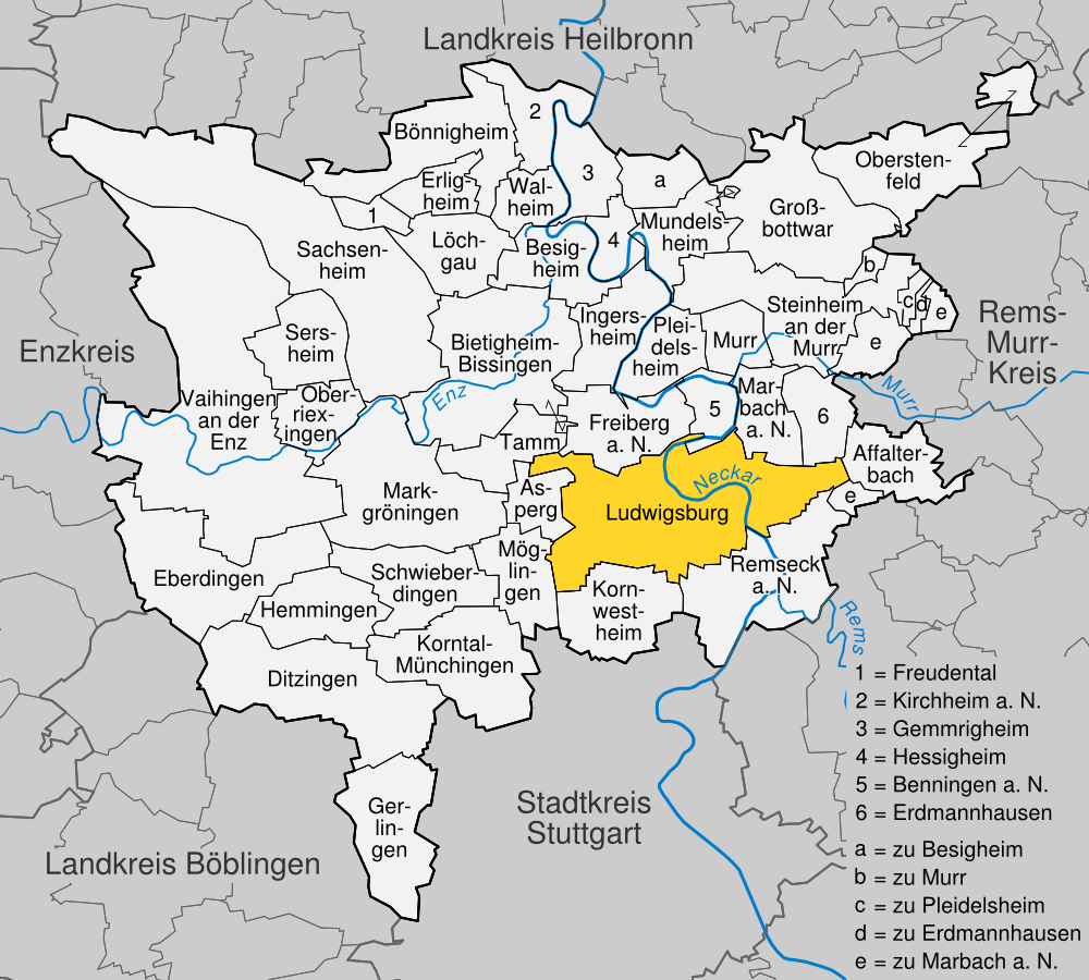 position of Ludwigsburg within distict of Ludwigsburg, Baden-Württemberg, Germany